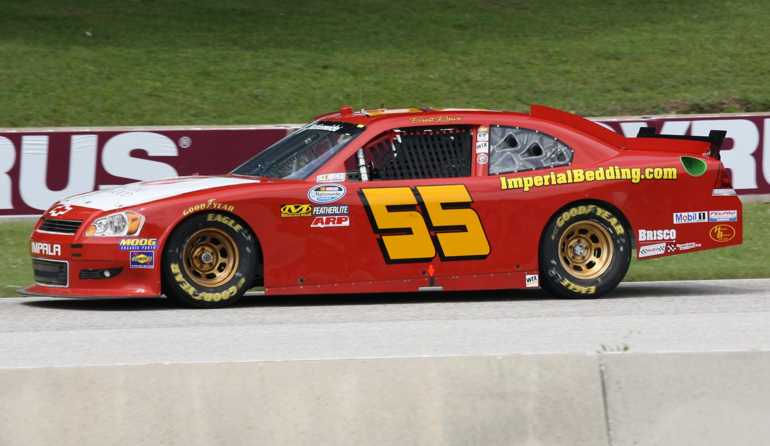 NASCAR driver Brett Rowe racing his stock car at Road America at the 2011 Bucyros 200 Nationwide Series race.